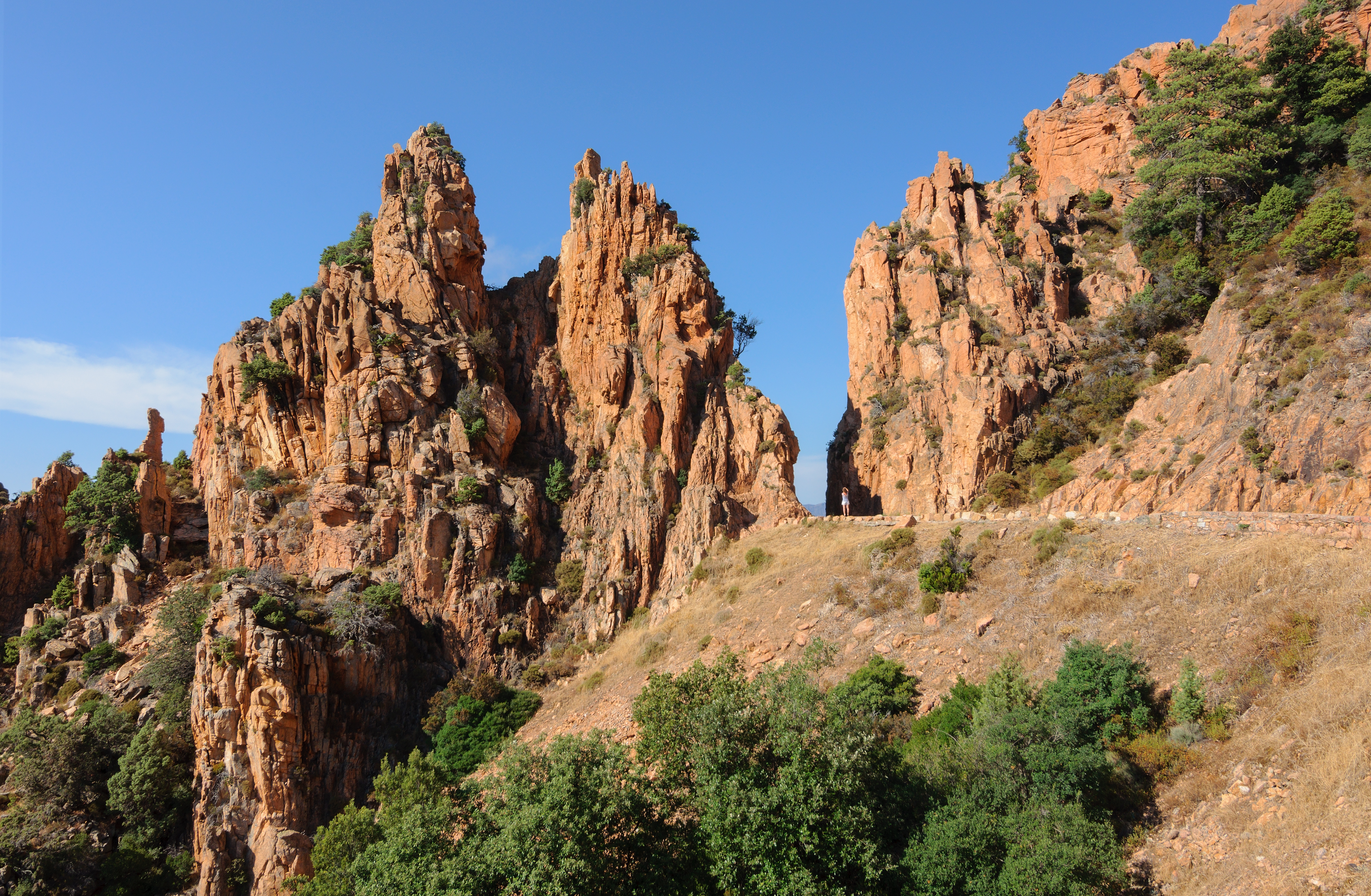 Piana, Southern Corsica, France : the Calanques of Piana.